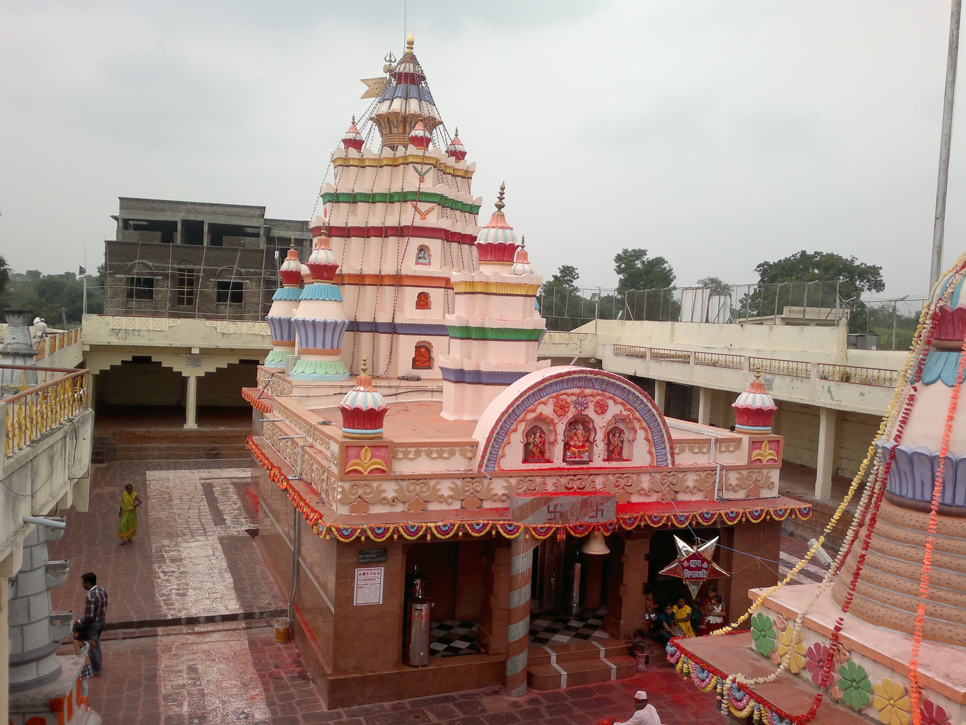 श्रीनाथ म्हस्कोबा मंदिर , वीर.